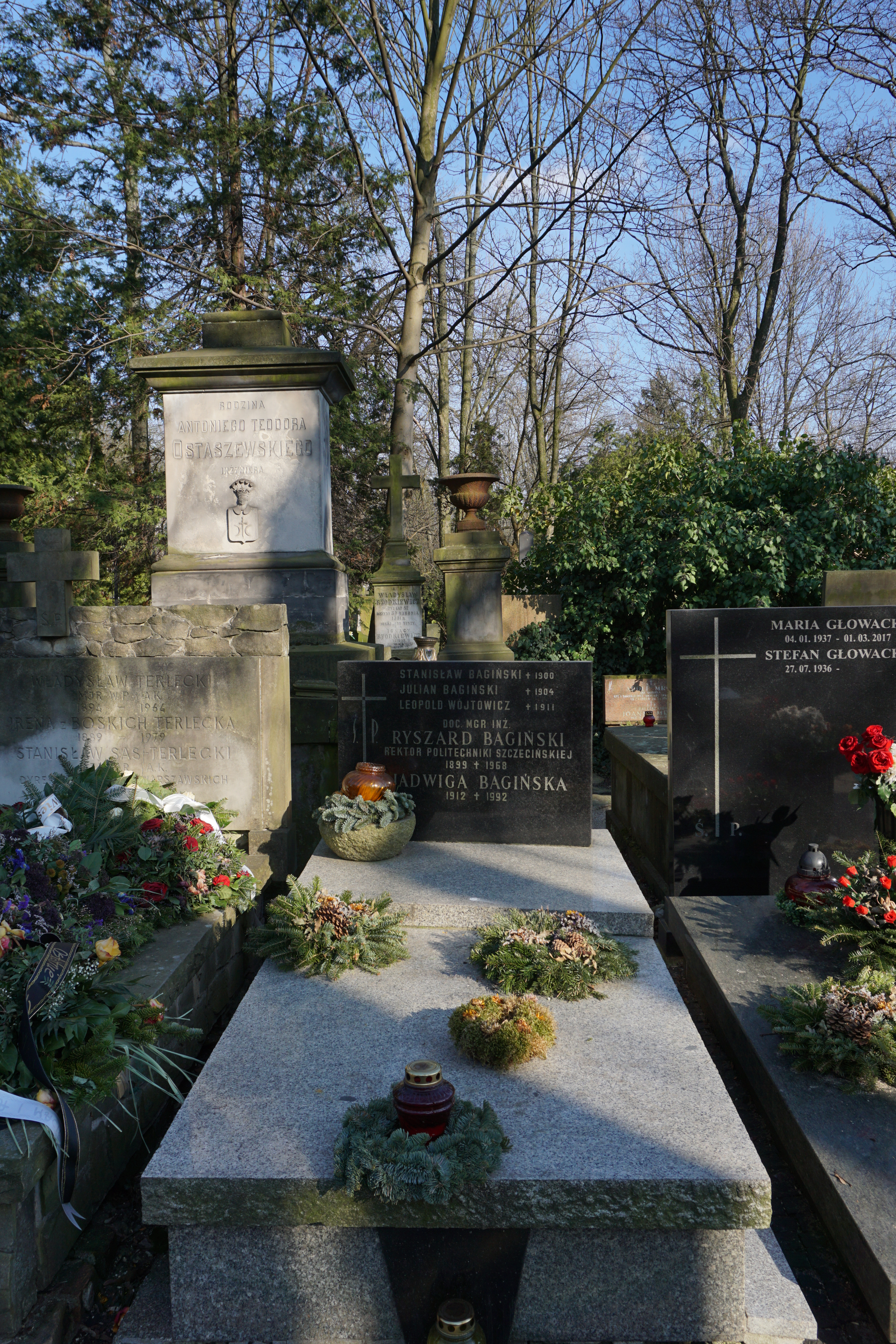 The grave of Ryszard Bagiński at the Powązki Cemetery (section 173, row 6, grave 16)